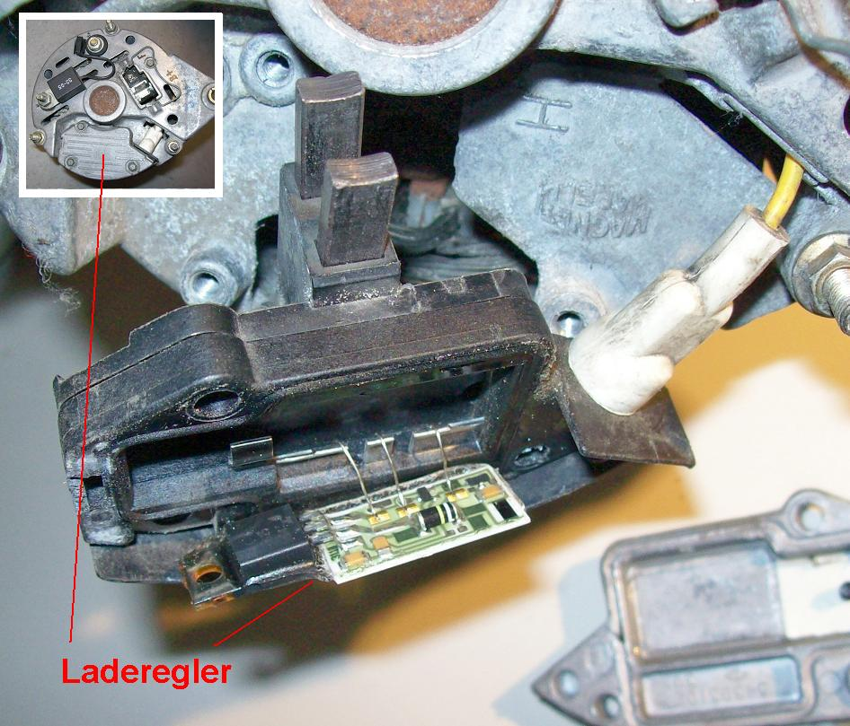 Charge controller of a car alternator. Top, the carbon brushes, through which the excitation current is transferred to the rotor by slip rings. Inset: View of the three-phase alternator with built-in rectifier and regulator.